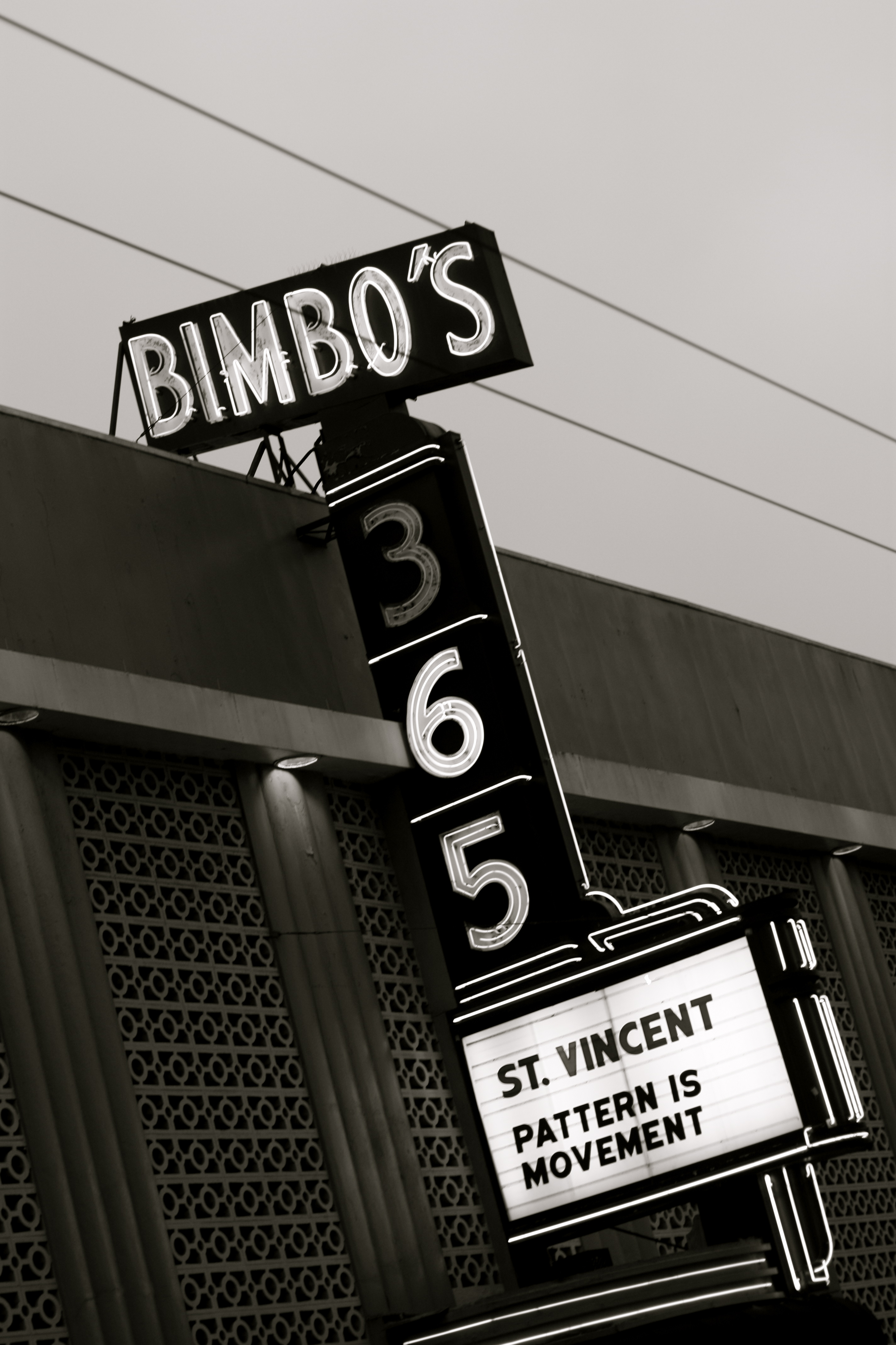 St. Vincent and Pattern Is Movement announced on a marquee at Bimbo's 365 Club